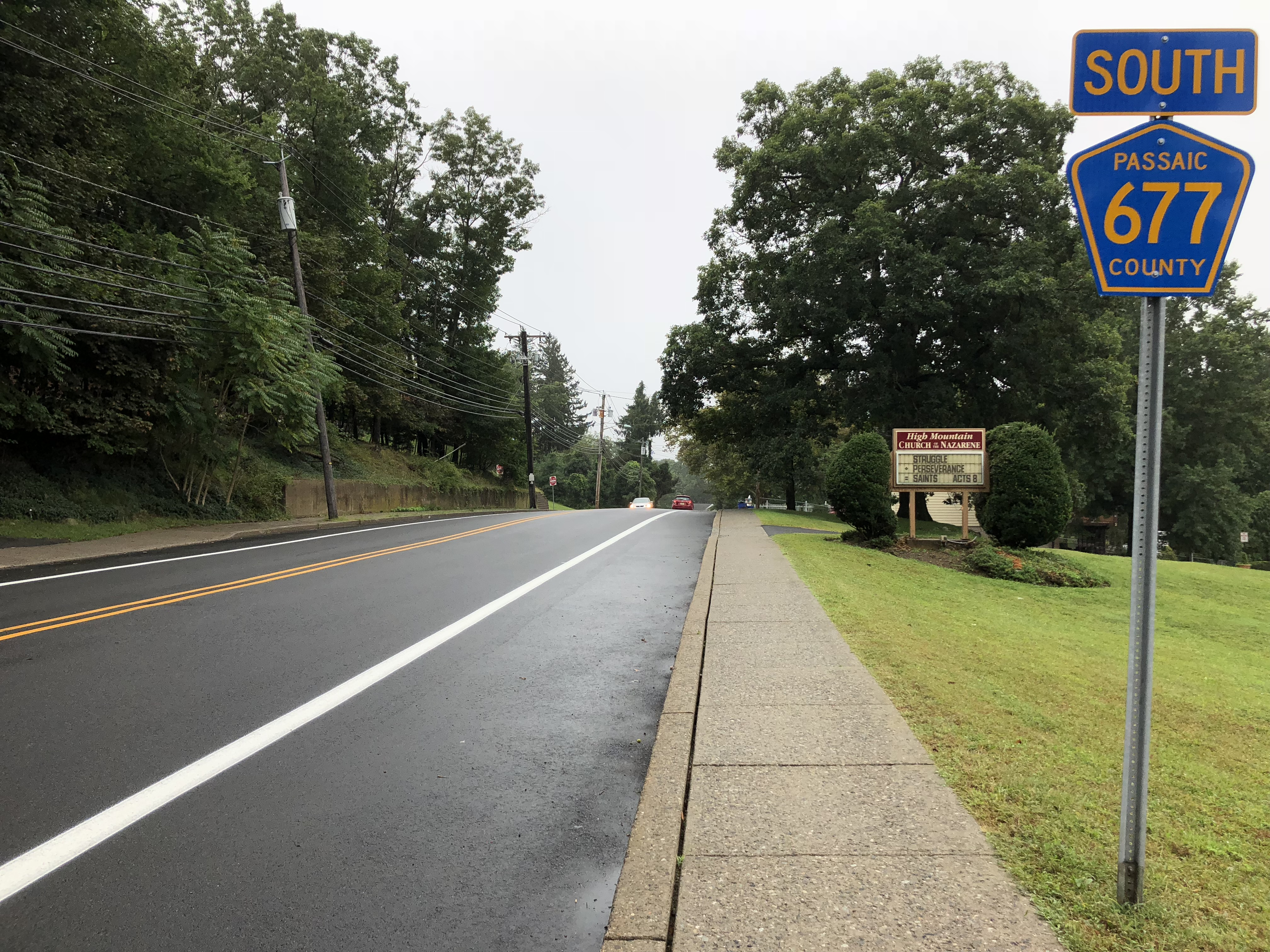 View south along Passaic County Route 677 (High Mountain Road) at Morley Place in North Haledon, Passaic County, New Jersey